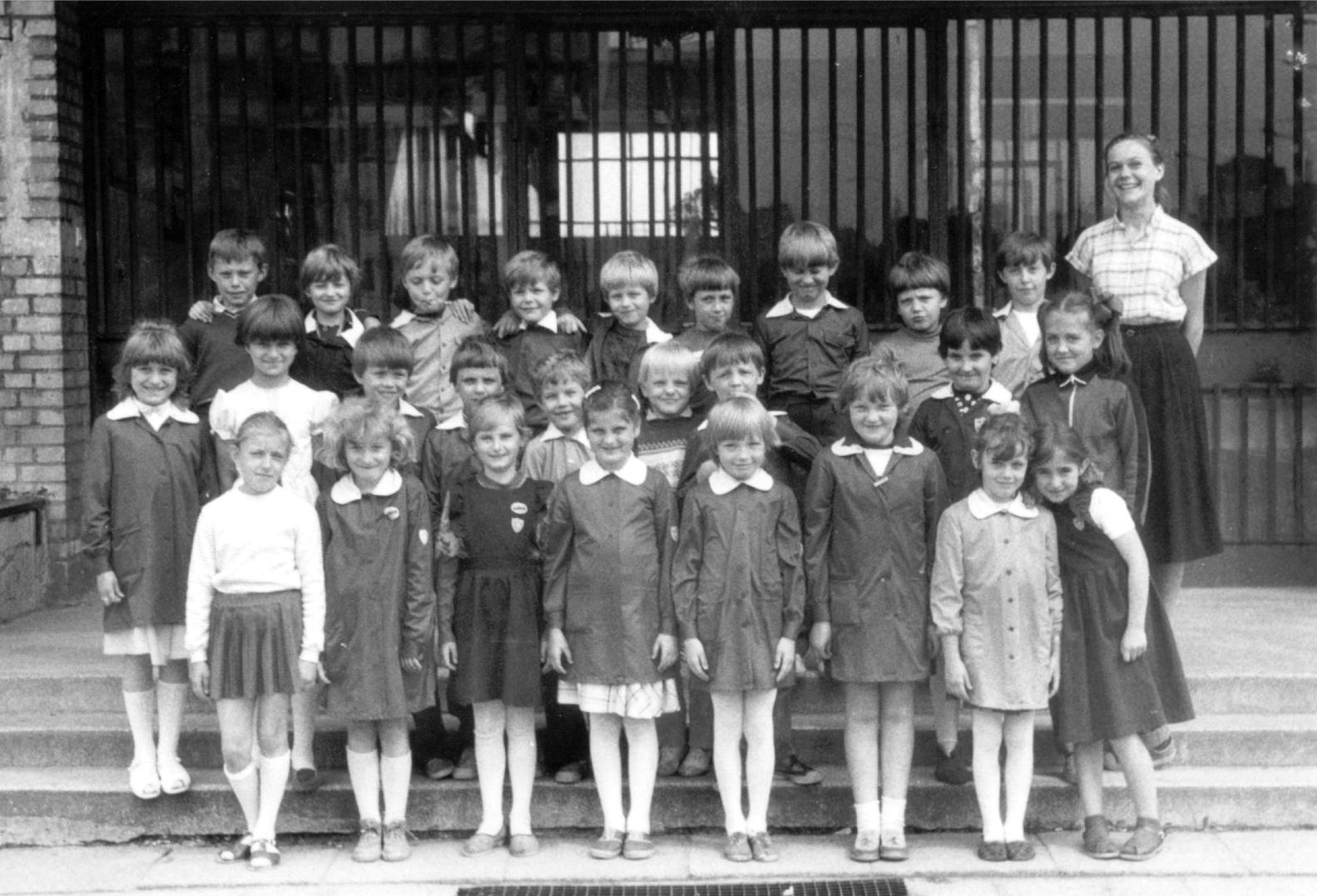 School uniforms worn by pupils in Poland in early 80s